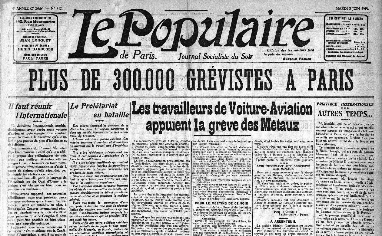 Newspaper Le Populaire (socialist) reporting on the strike in Paris in June 1919.